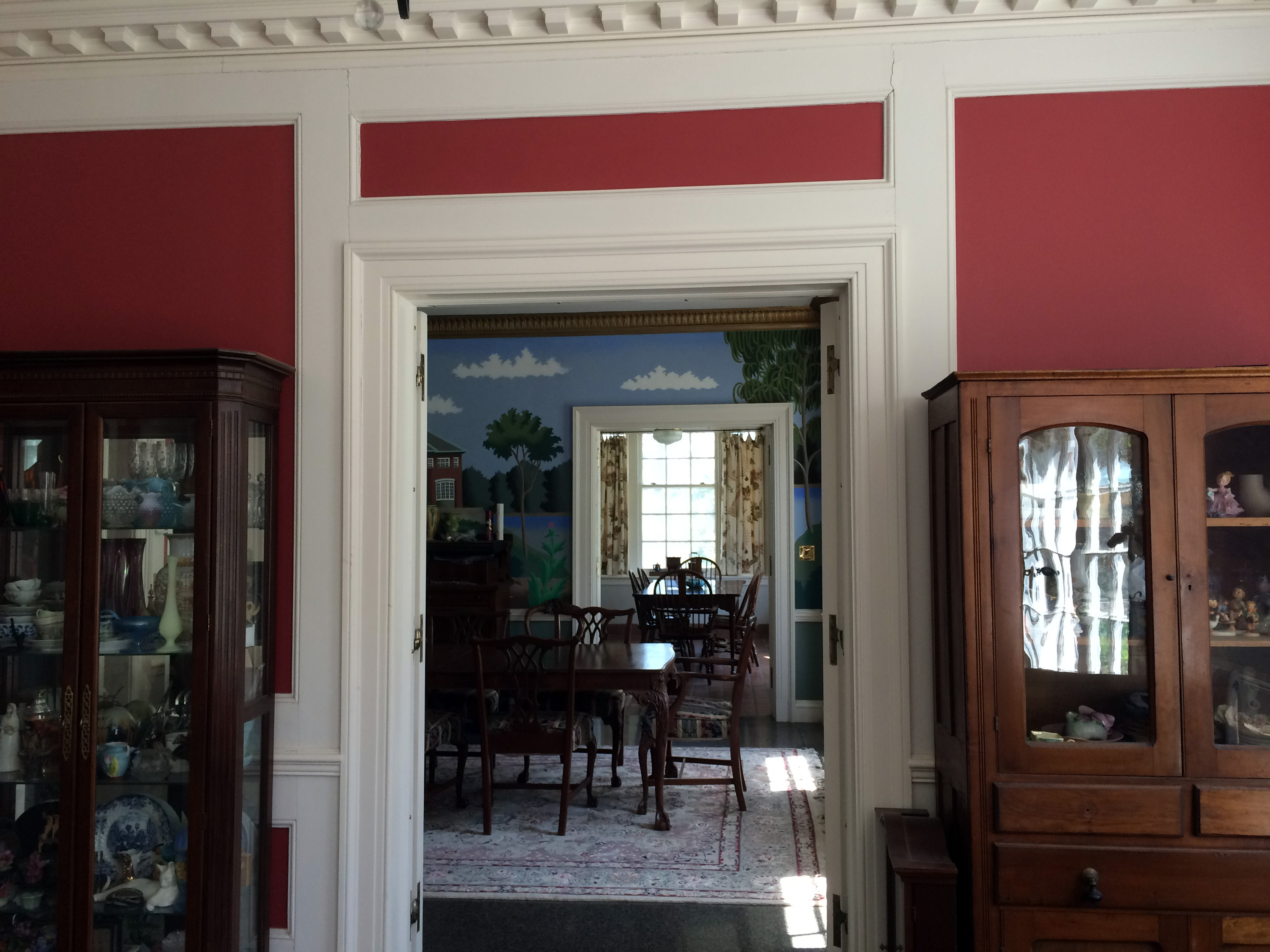 East Hill House Inside view from living room through dining room into breakfast room. Shows 2 of the more than 10 pairs of french doors.